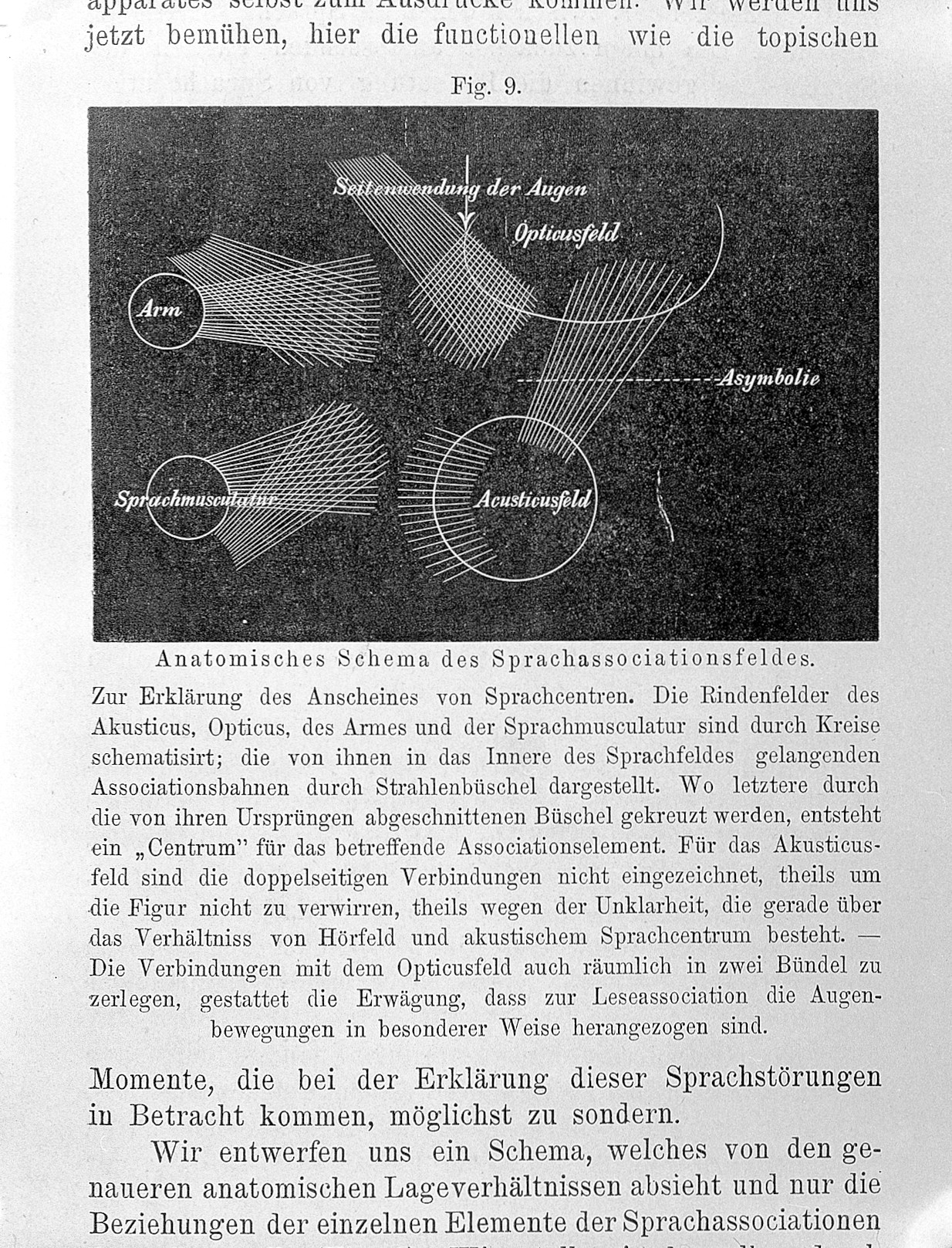 Anatomisches schema des sprachassociationsfelds General Collections Keywords: Aphasia